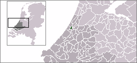 Location of Dutch former municipality Rijnsburg in 2005. Made by me (Mtcv), PD.